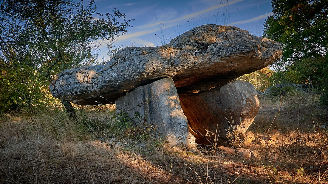 Pierre Levée - dolmen near Lentillac-du-Causse, Lot, France. Photographed in early morning, when the rising sun illuminates the interior through its east-facing entrance.